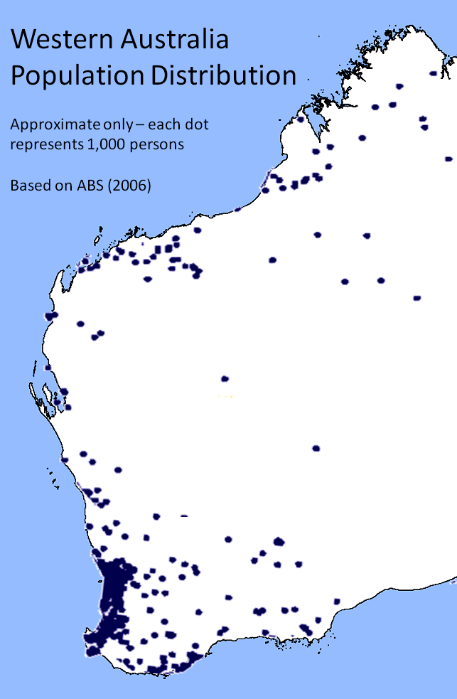 See description on image